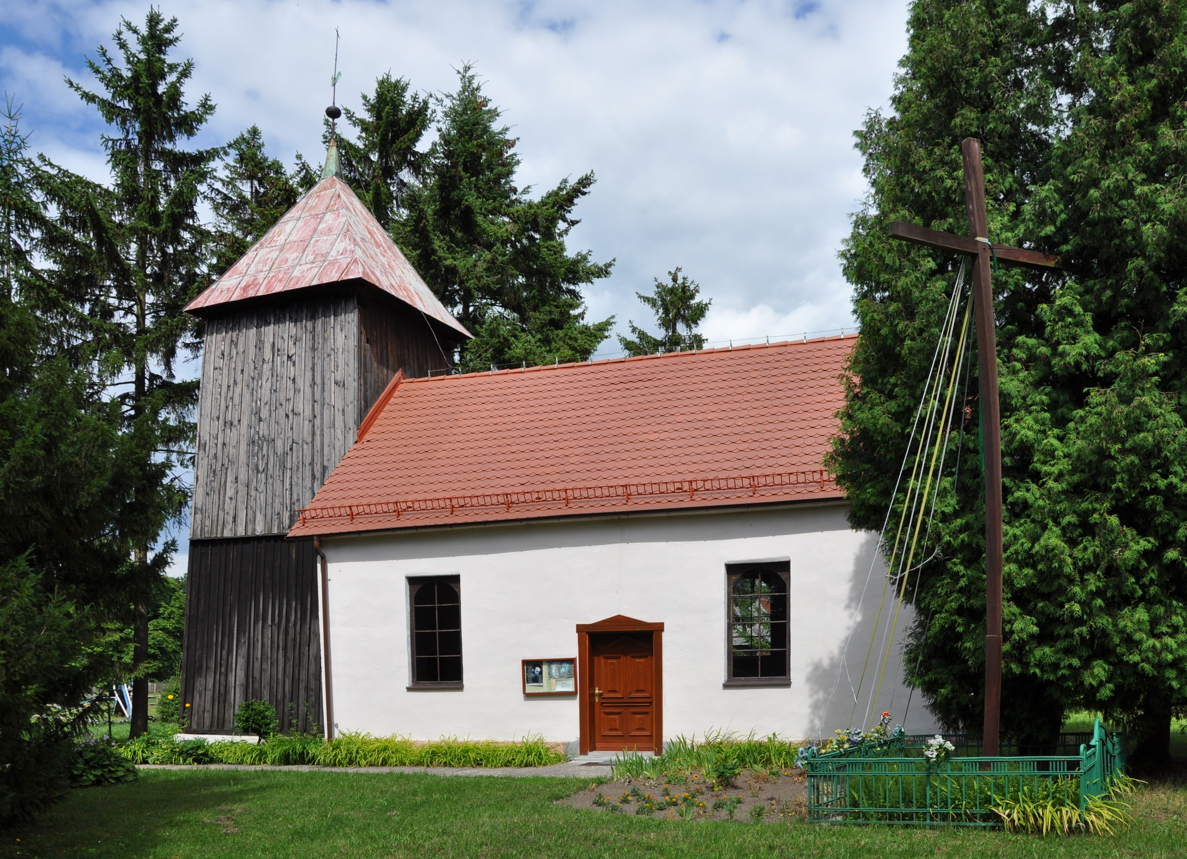 St. Stanislaus of Szczepanów Roman Catholic Church in Glewice – southside